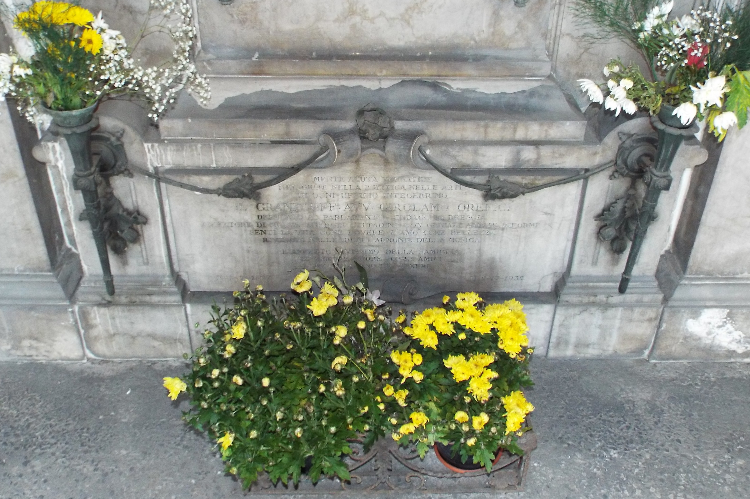 Girolamo Orefici's tomb in Vantiniano cemetery of Brescia.